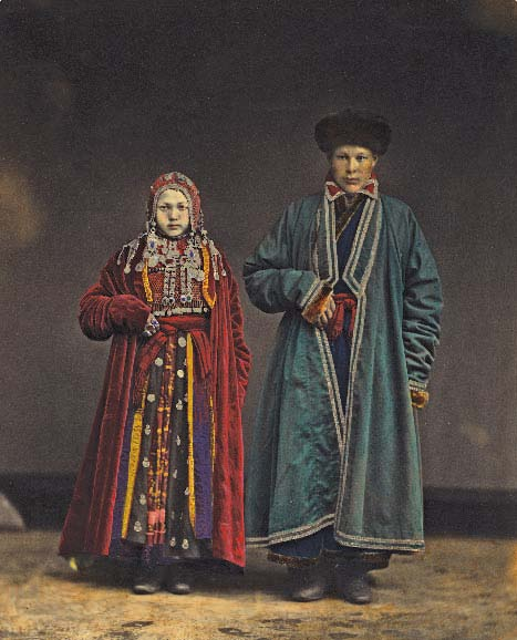 Bashkirs